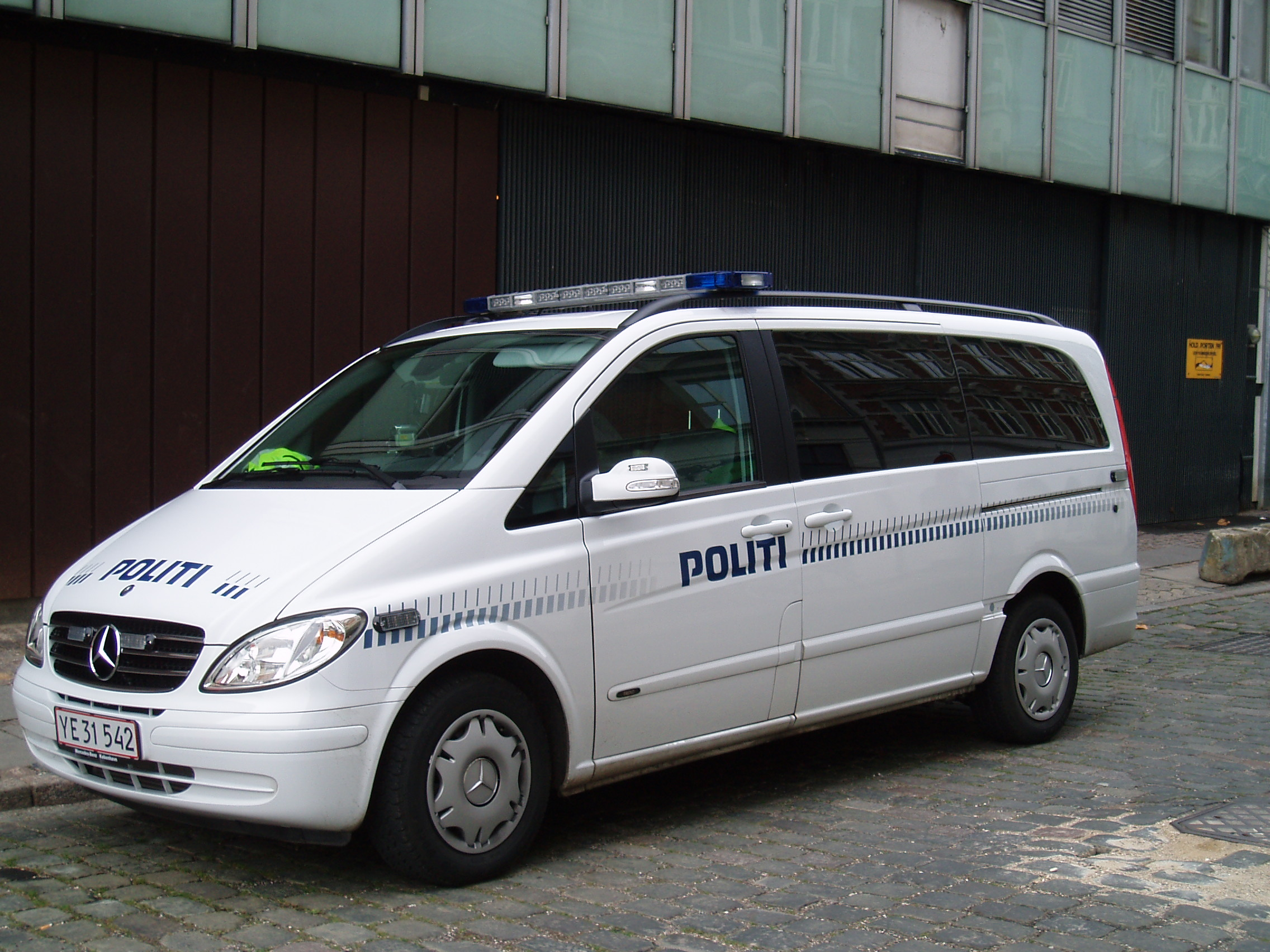 Central Turnout Leader of the Copenhagen Police Department ("OCU"). Vehicle is replacing a Ford Transit. The OCU with callsign Lima-9 is a police leader, which responds to larger or important incidents in Copenhagen - e.g. structure fires, demonstrations, traffic accidents or found of deads. Here the vehicle has been photographed at the City police station.